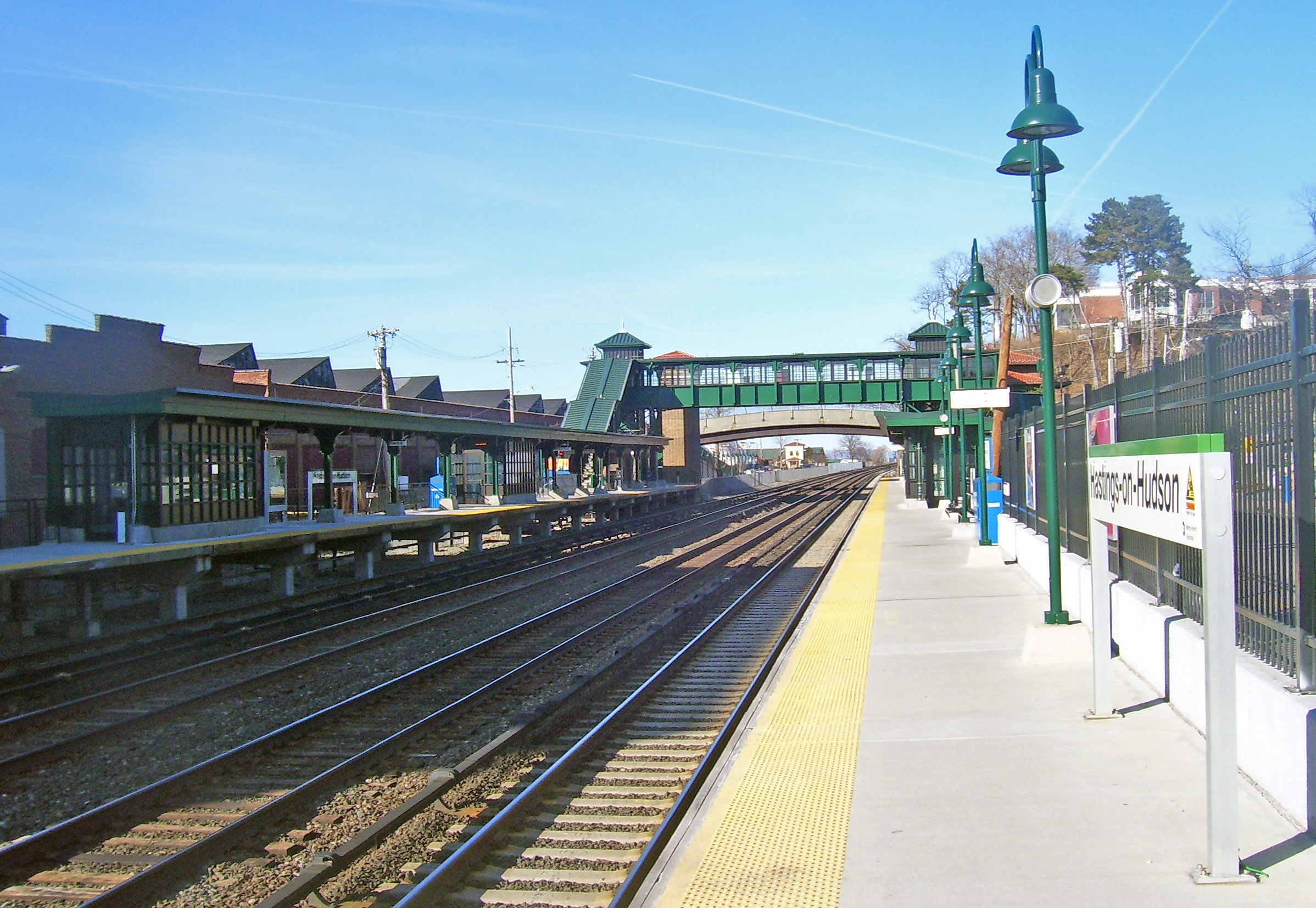 Metro-North train station, Hastings-on-Hudson, NY, USA